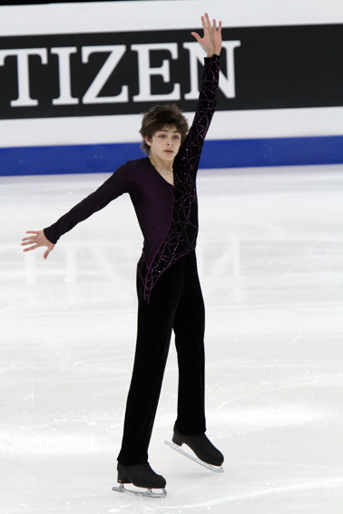 Brendan Kerry at the 2011 Four Continents Championships.